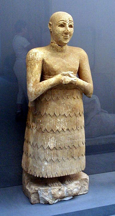 Istanbul Archaeological Museum - Oriental pavilion. Pieces.